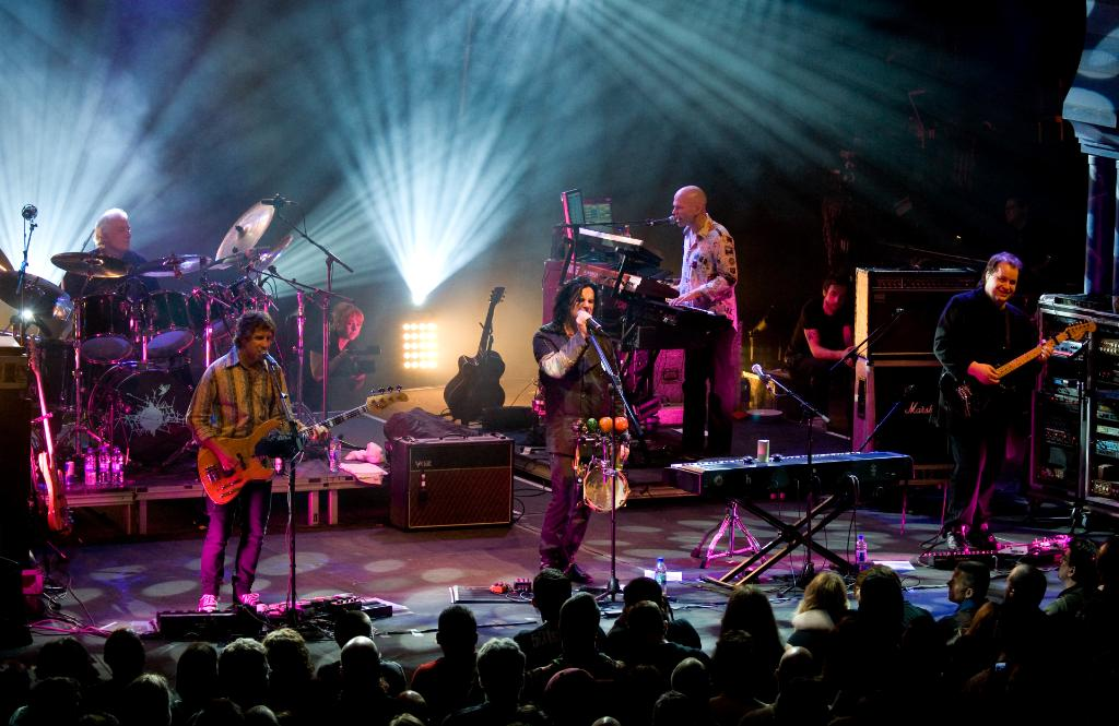 Marillion onstage at their 2009 weekend festival in Montreal, Canada.